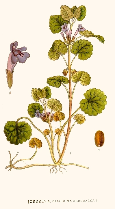 Original Description Jordreva, Glechoma hederacea L.